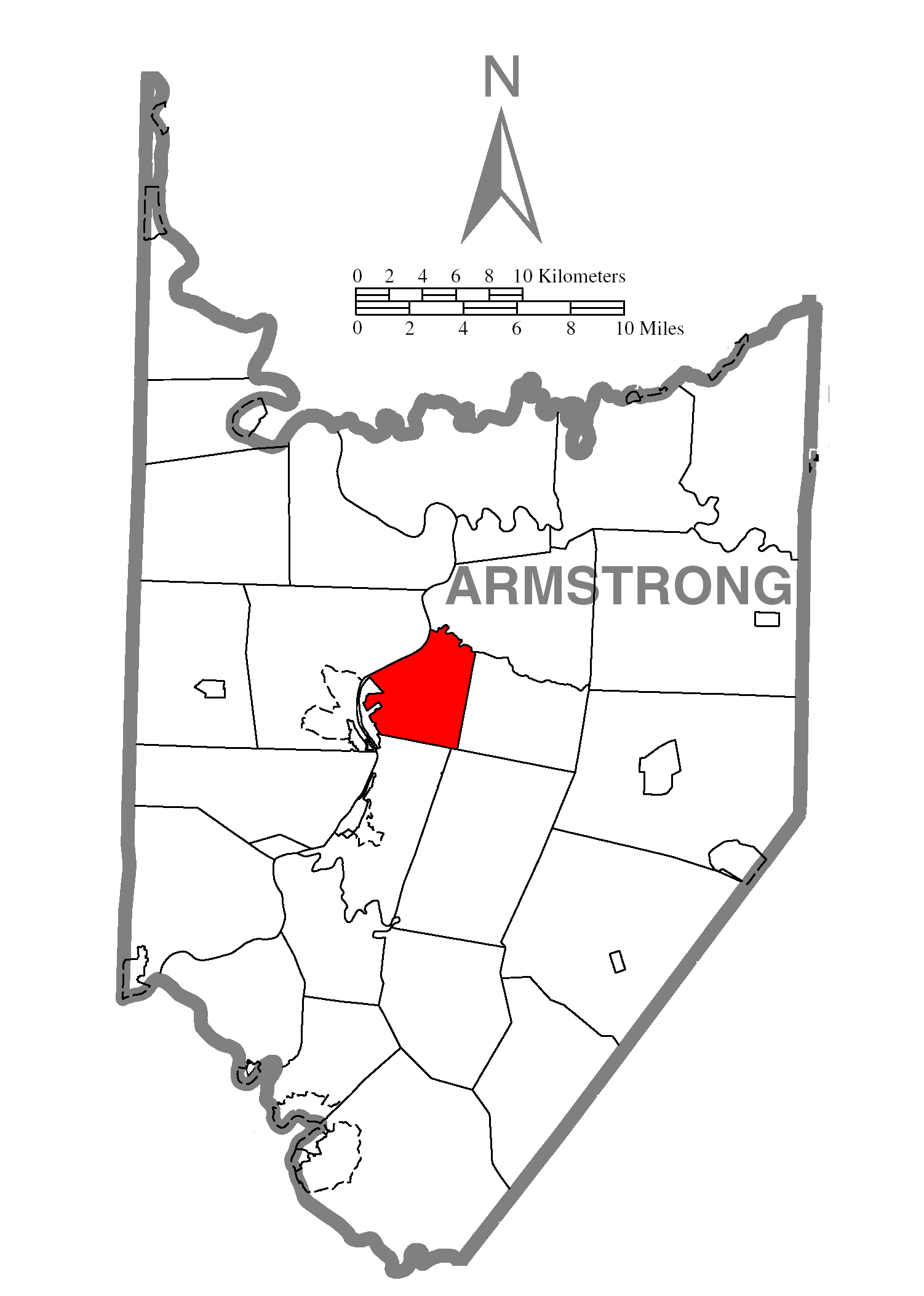 A map of Armstrong County showing Rayburn Township, Pennsylvania (alternate) highlighted on the map.